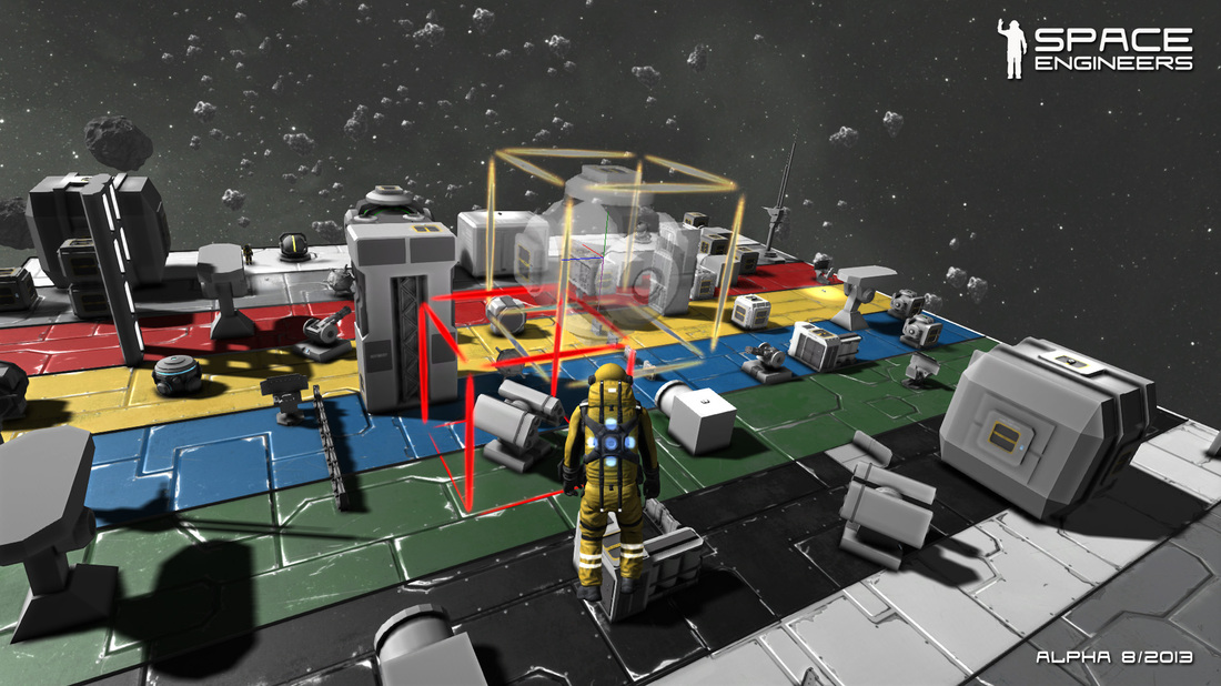 Screenshot of the game showing an astronaut building in third-person mode.